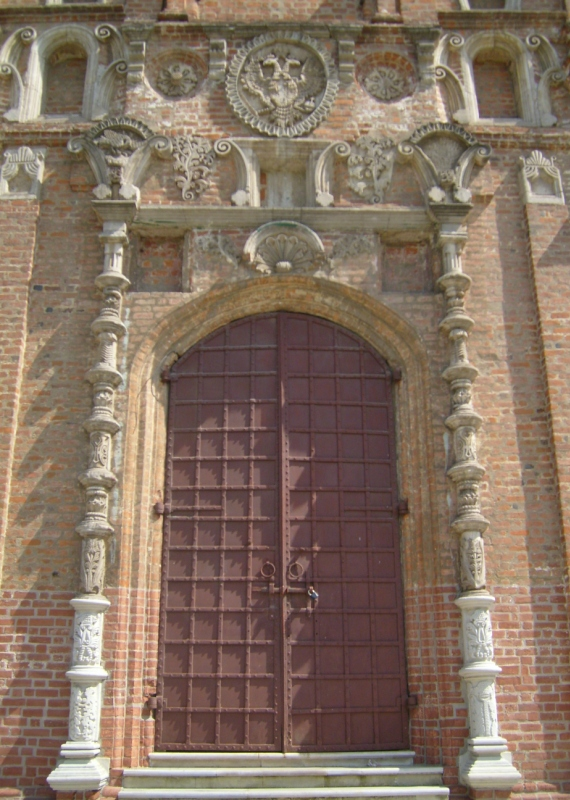 Uspenskiy Cathedral of the Tula Kremlin